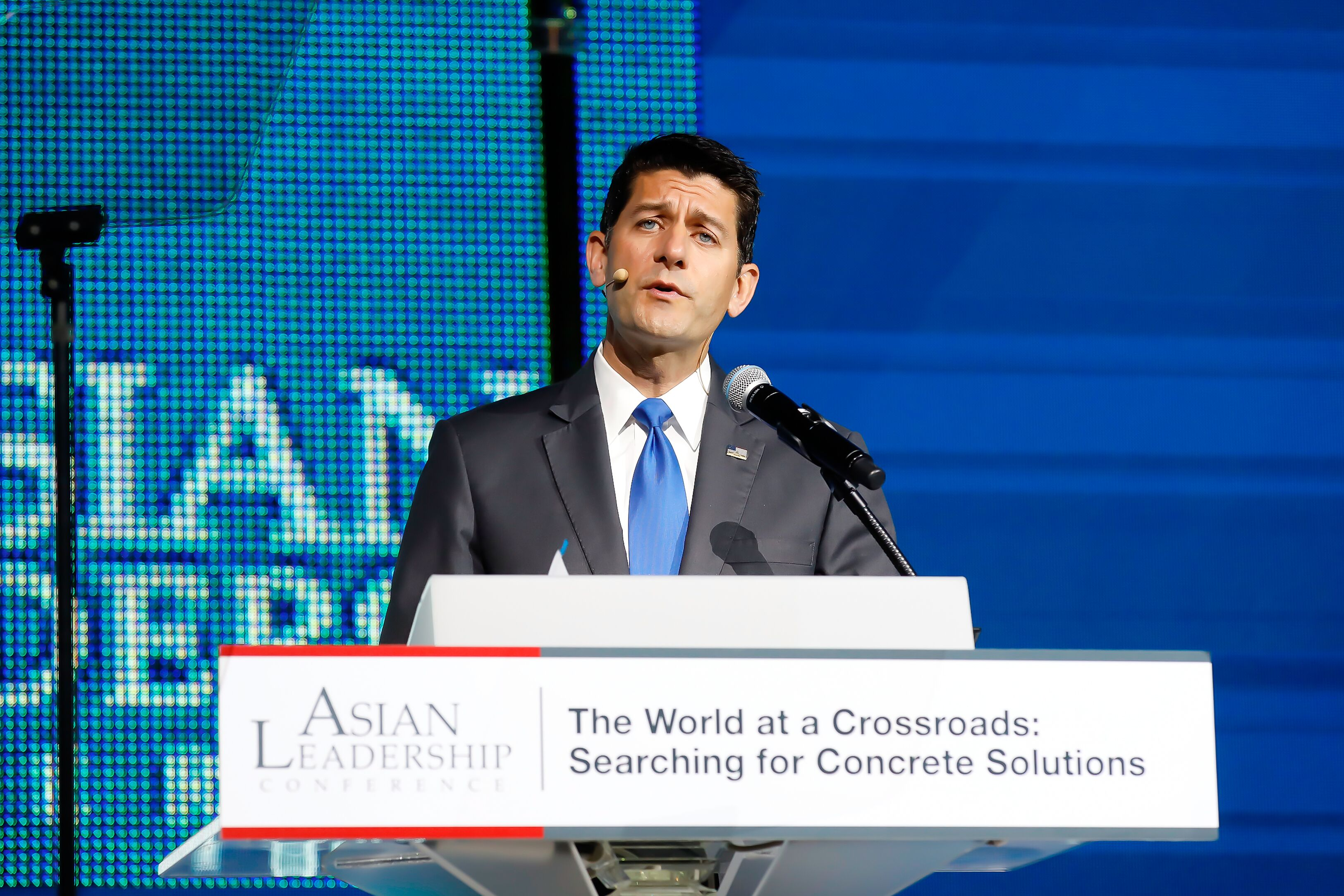 Paul Ryan at 2019ALC